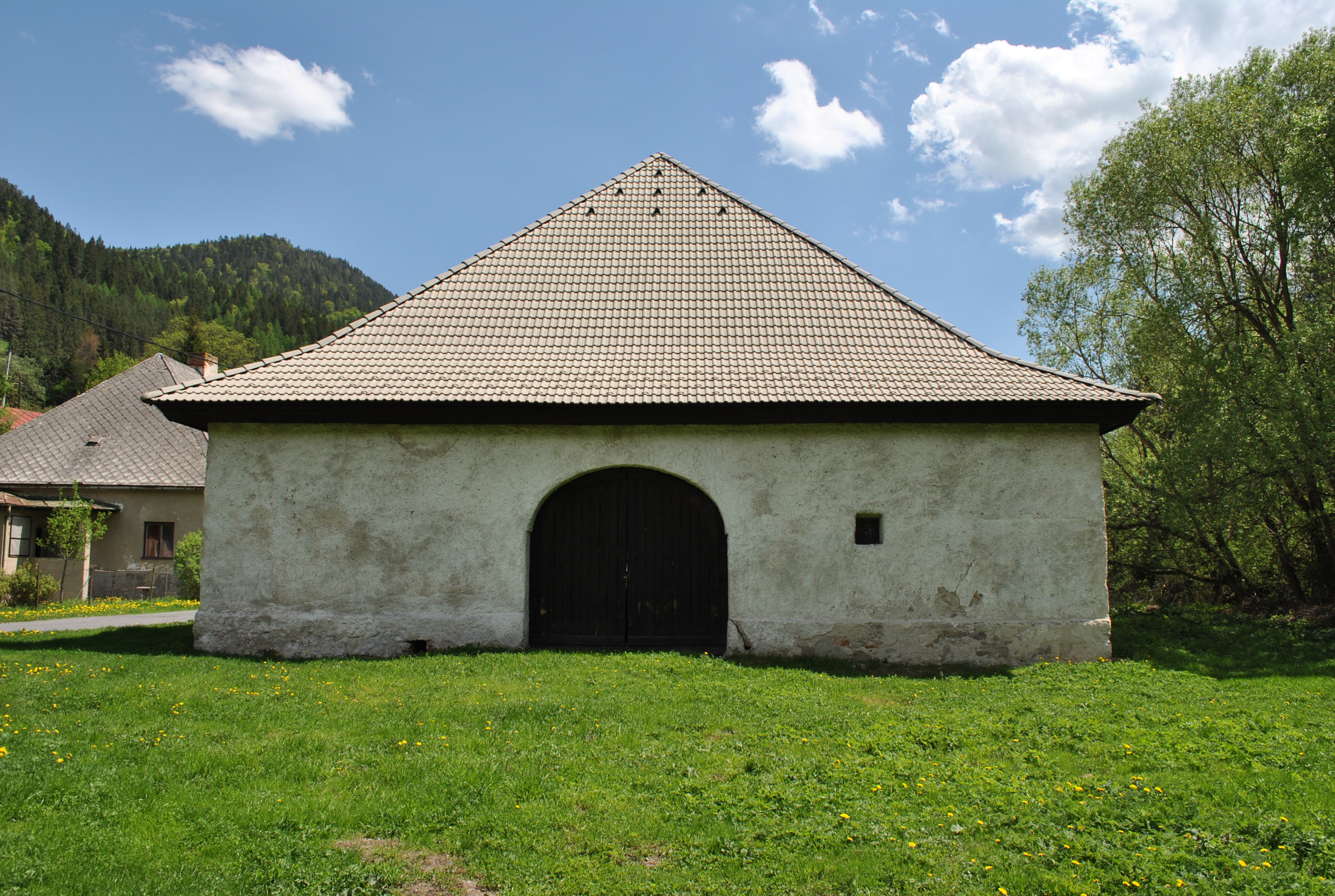 Malužiná - shed for carriages from 1808